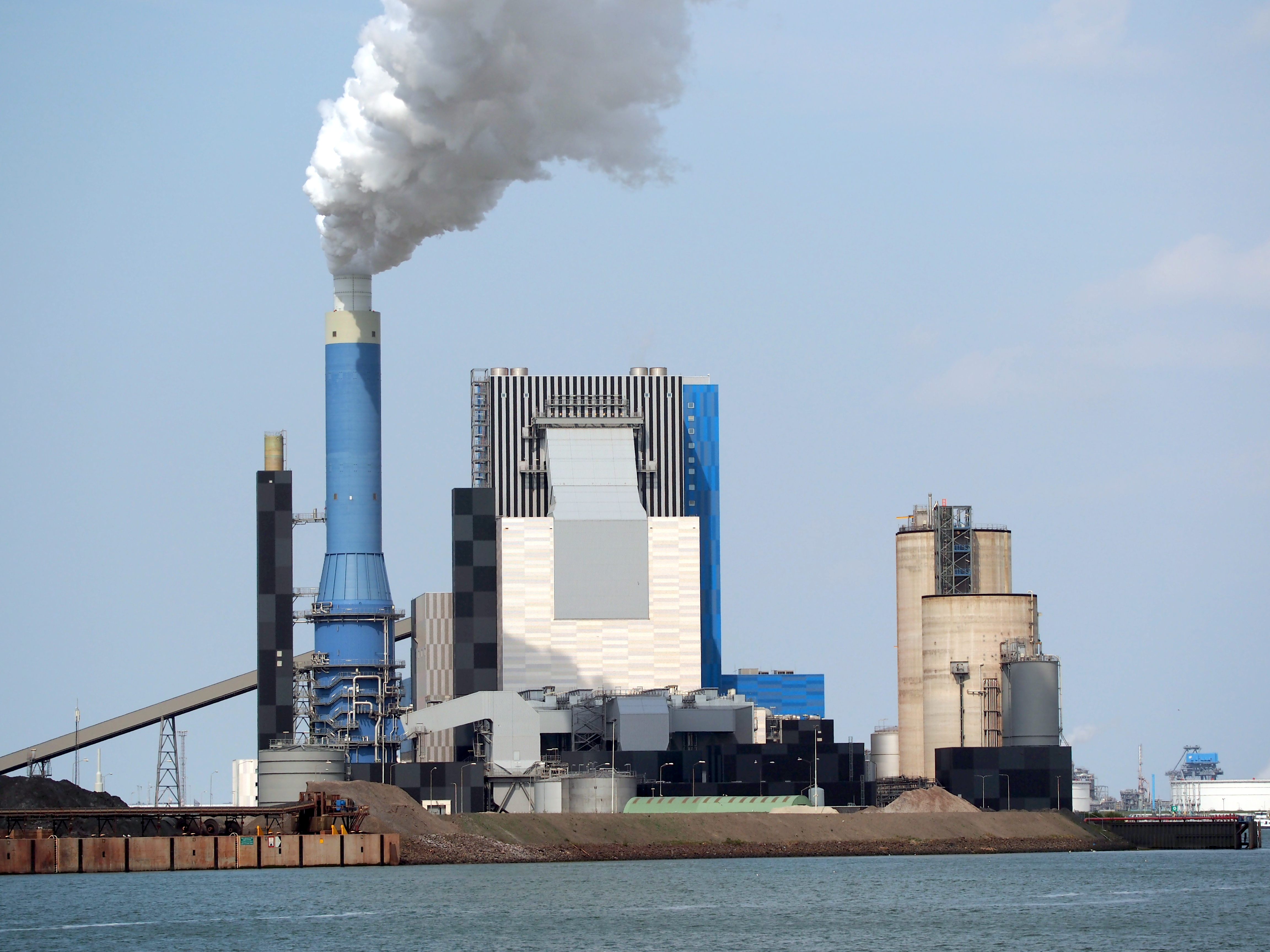 GDF Suez Centrale, Port of Rotterdam.